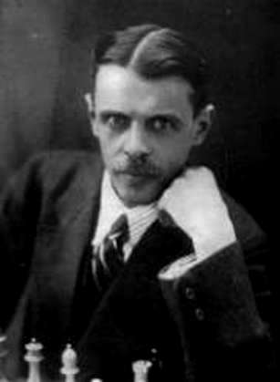 Russian chess master Eugene Znosko-Borovsky.